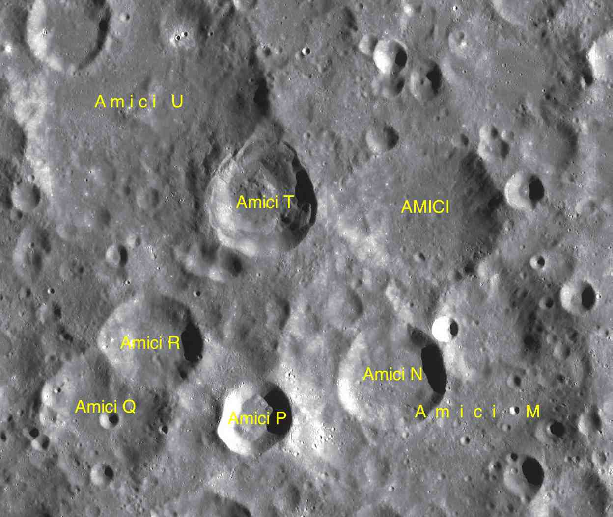 Part of the chart LAC-86 used for the presentation